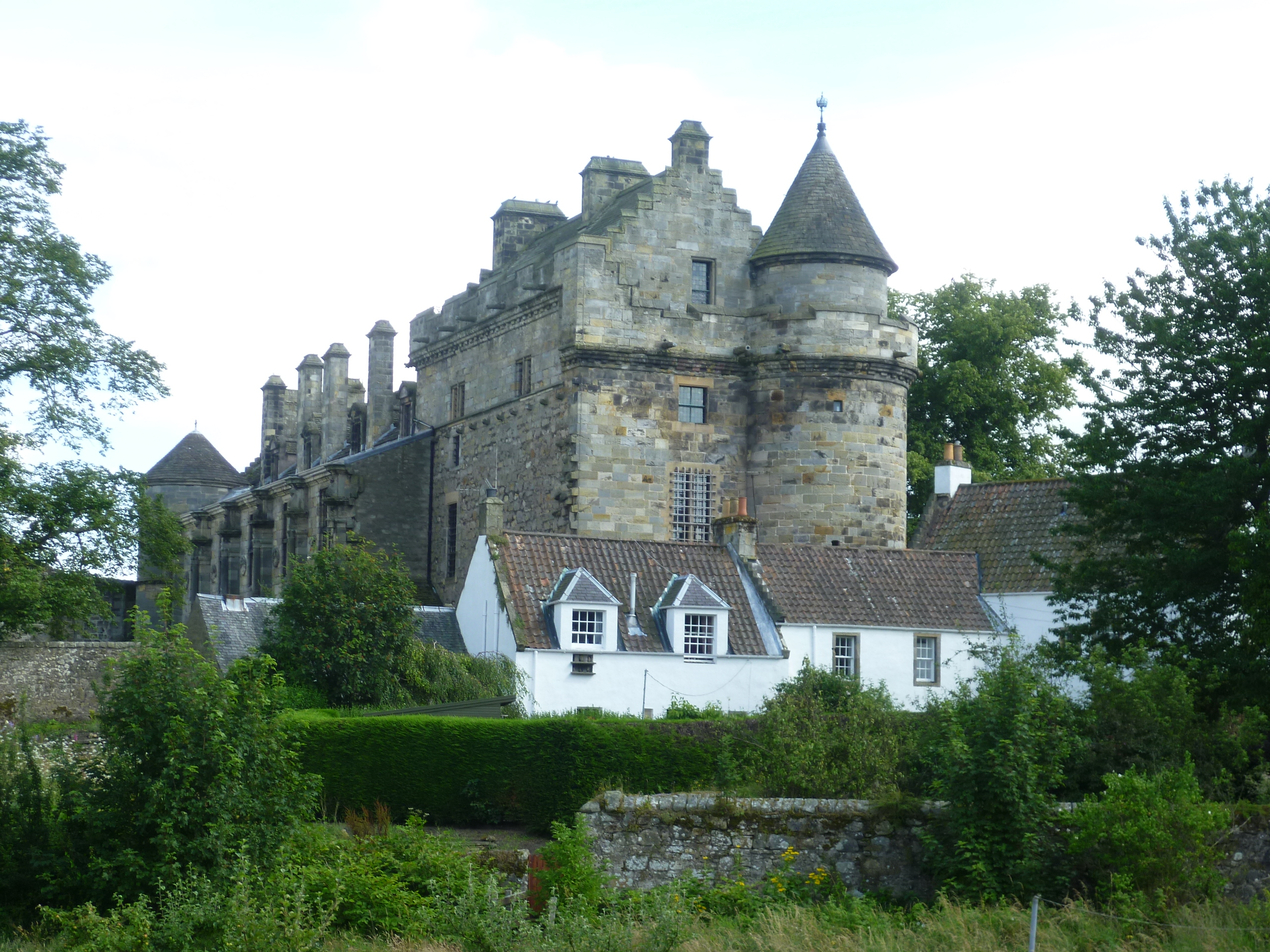 Falkland Palace from the Maspie Burn.